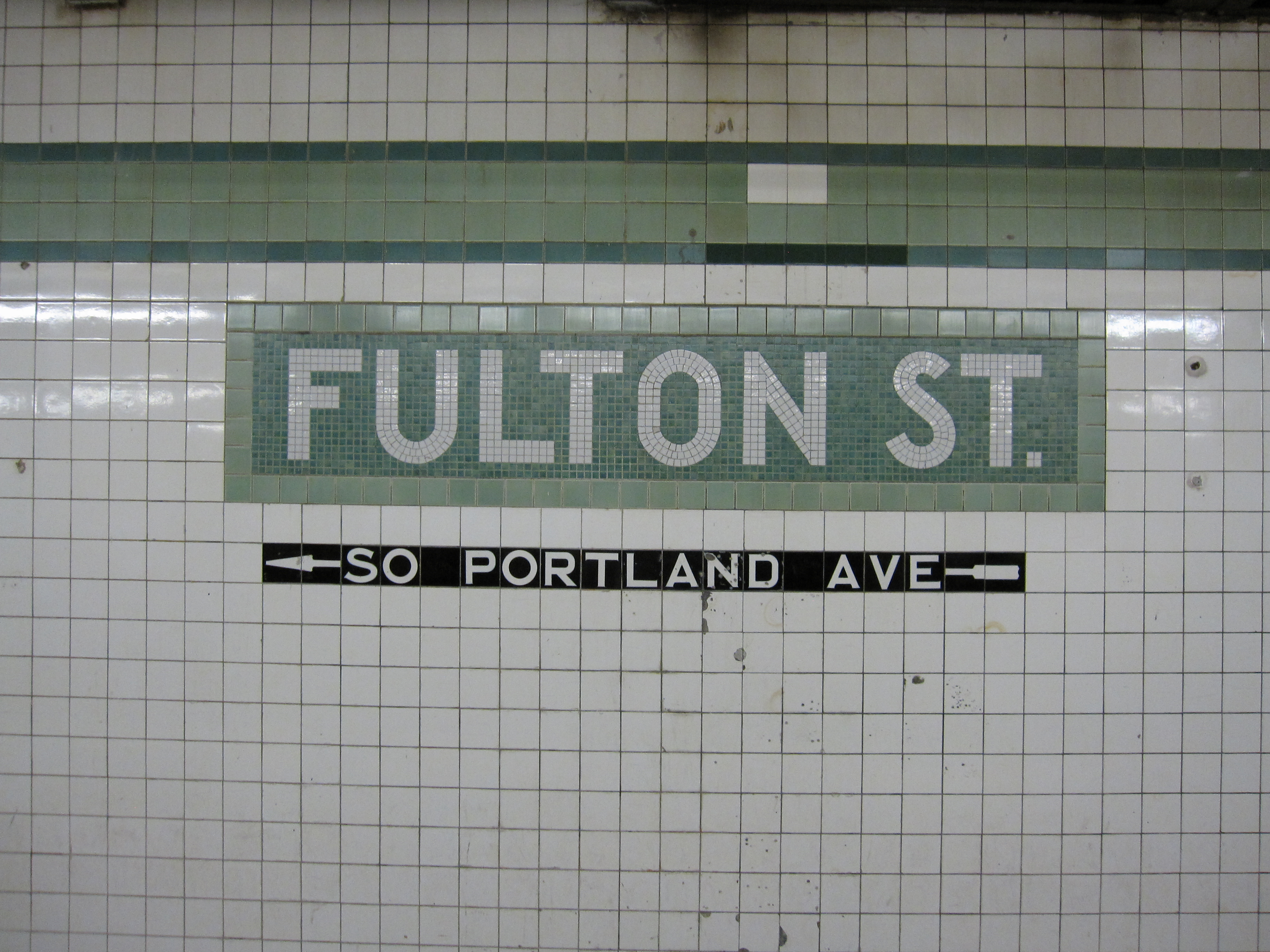 Fulton Street (IND Crosstown Line)